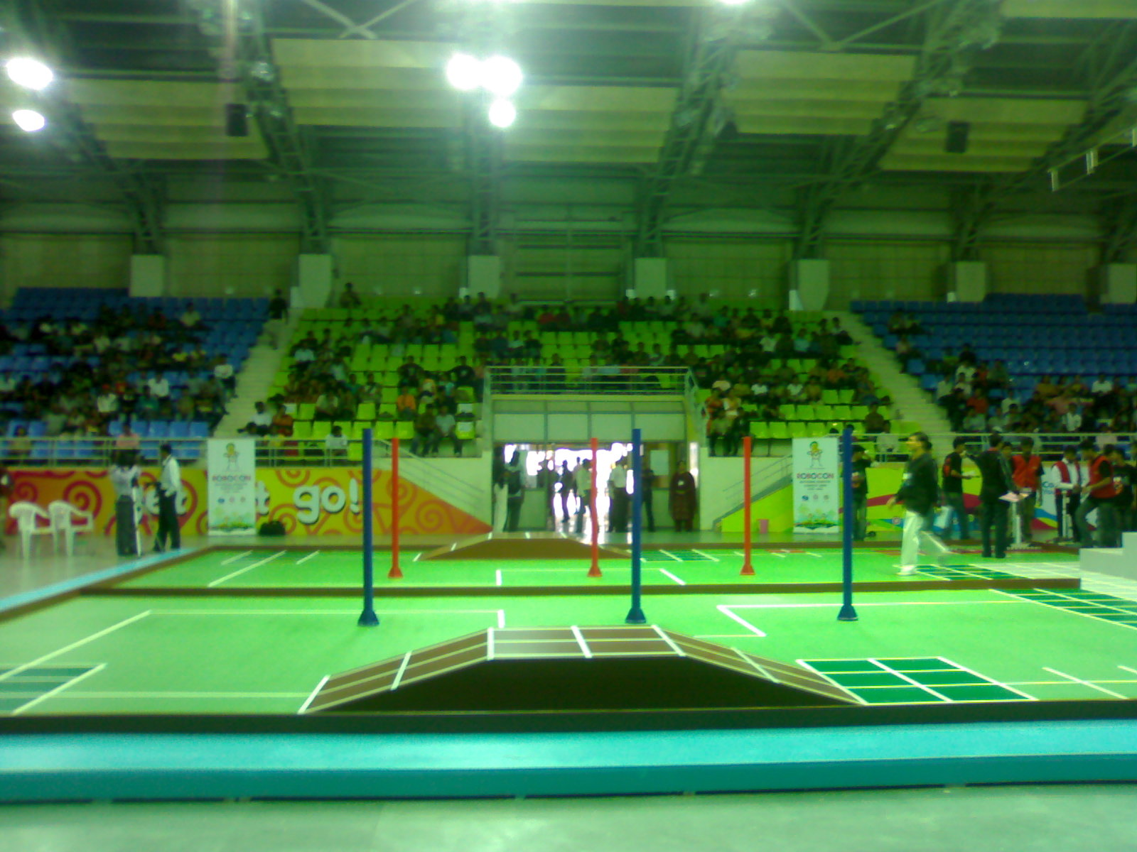 Robocon India 2009 View of Arena